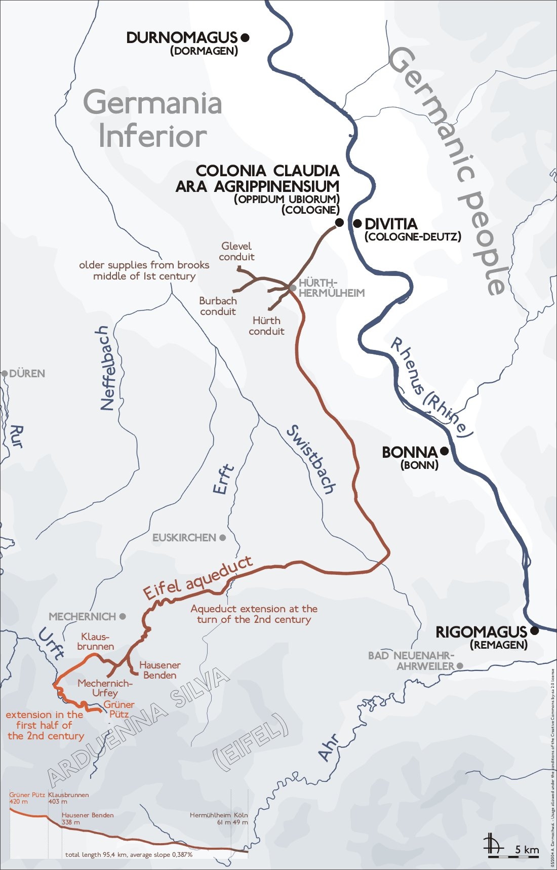 Little corrections; drawing created in 2004 by Benutzer:Sanculotte, licensed under the conditions of the CC-BY-SA 2.0